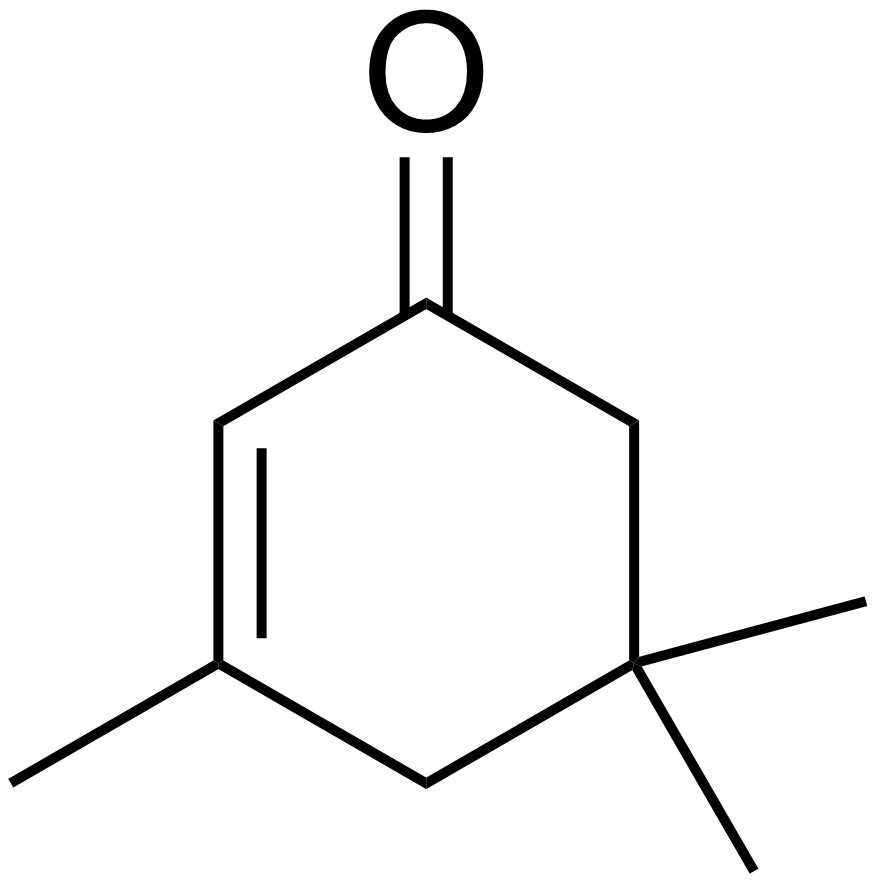 chemical structure of isophorone